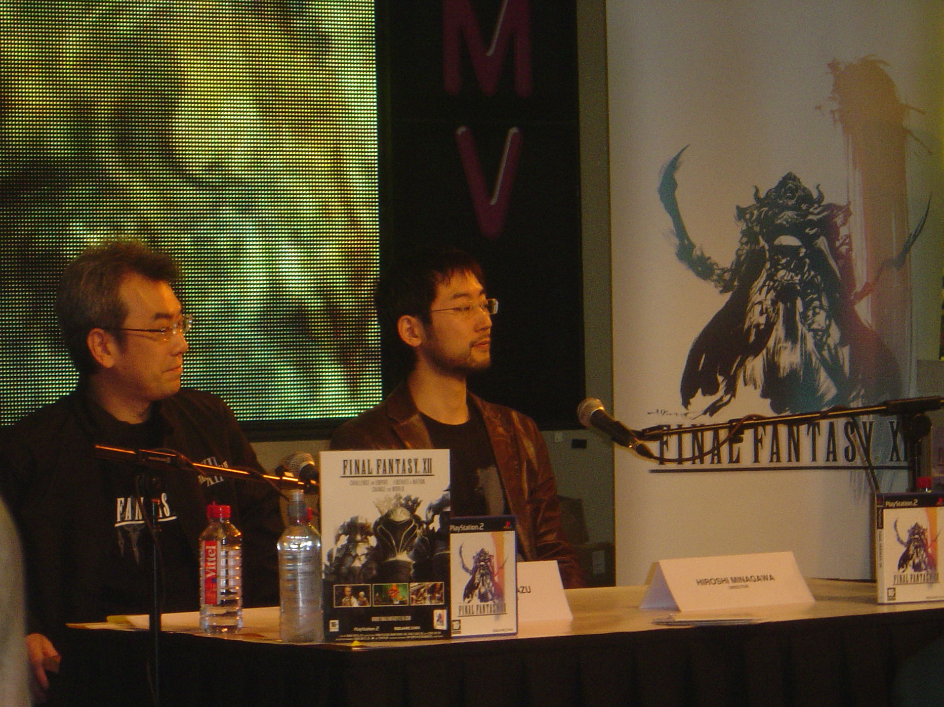 Akitoshi Kawazu and Hiroshi Minagawa, respectively executive producer and co-director of the video game Final Fantasy XII, at the game's HMV Launch Party in London (February 23, 2007).This is a cropped version of the original photo.